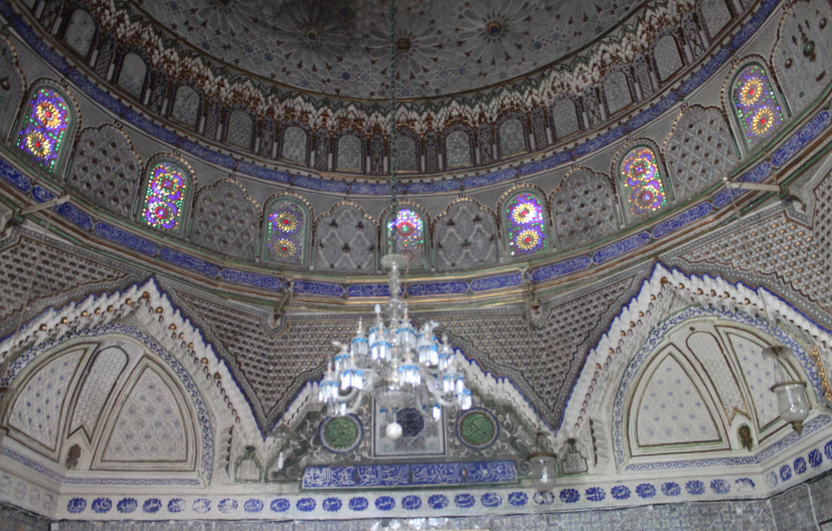 Medina old town of Tunis, Tunis